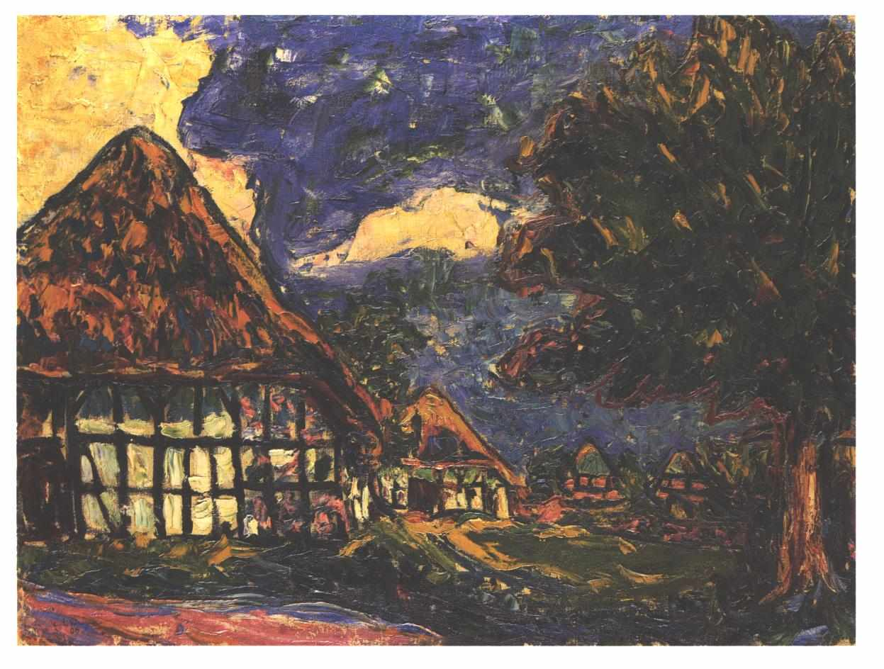 House on Fehmarn